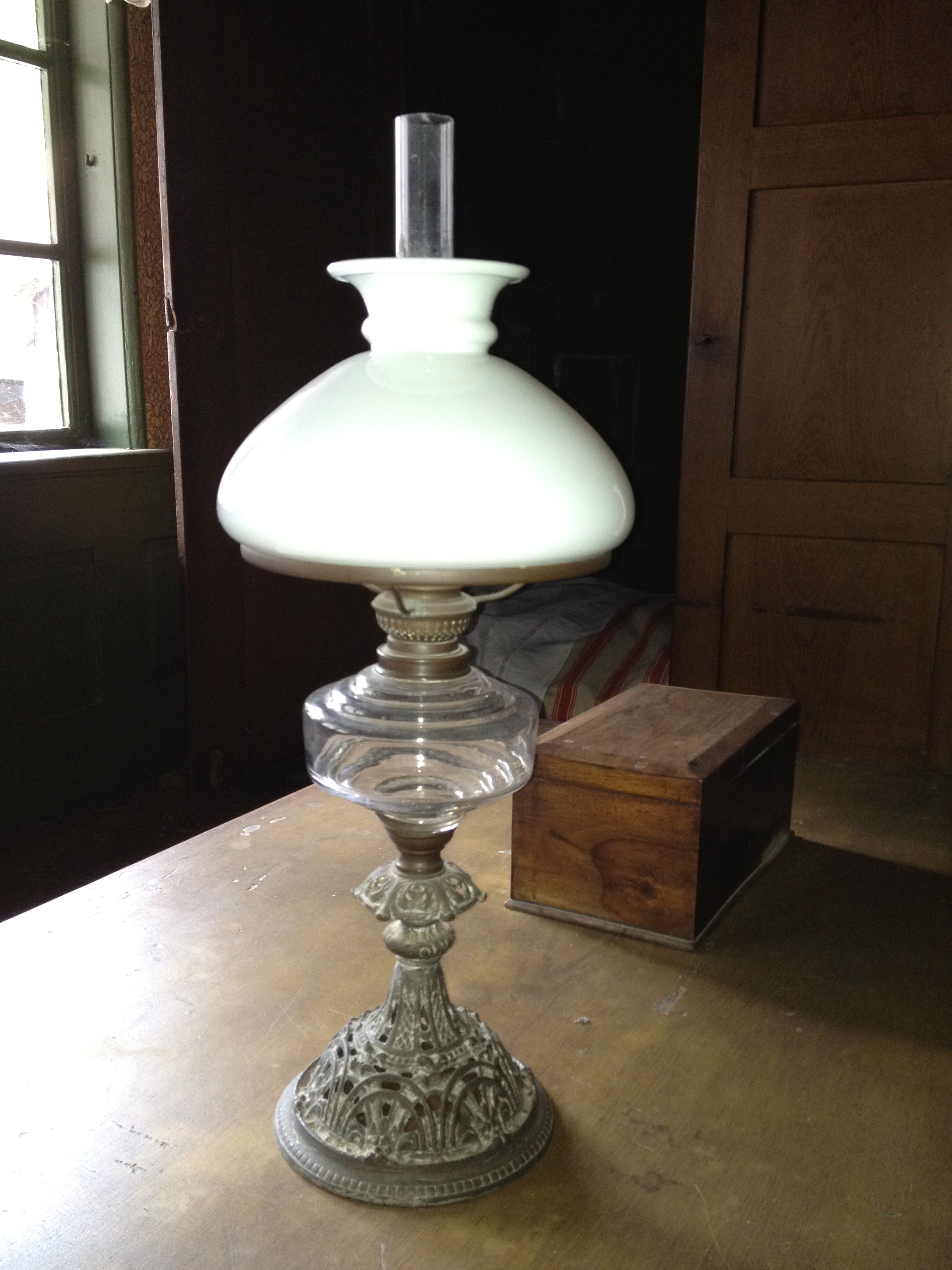 Details from the mill from Ellested Parish, Fyn, at the Open-Air Museum.